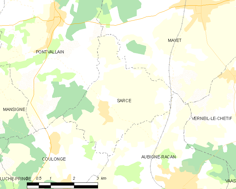 Map of French municipality